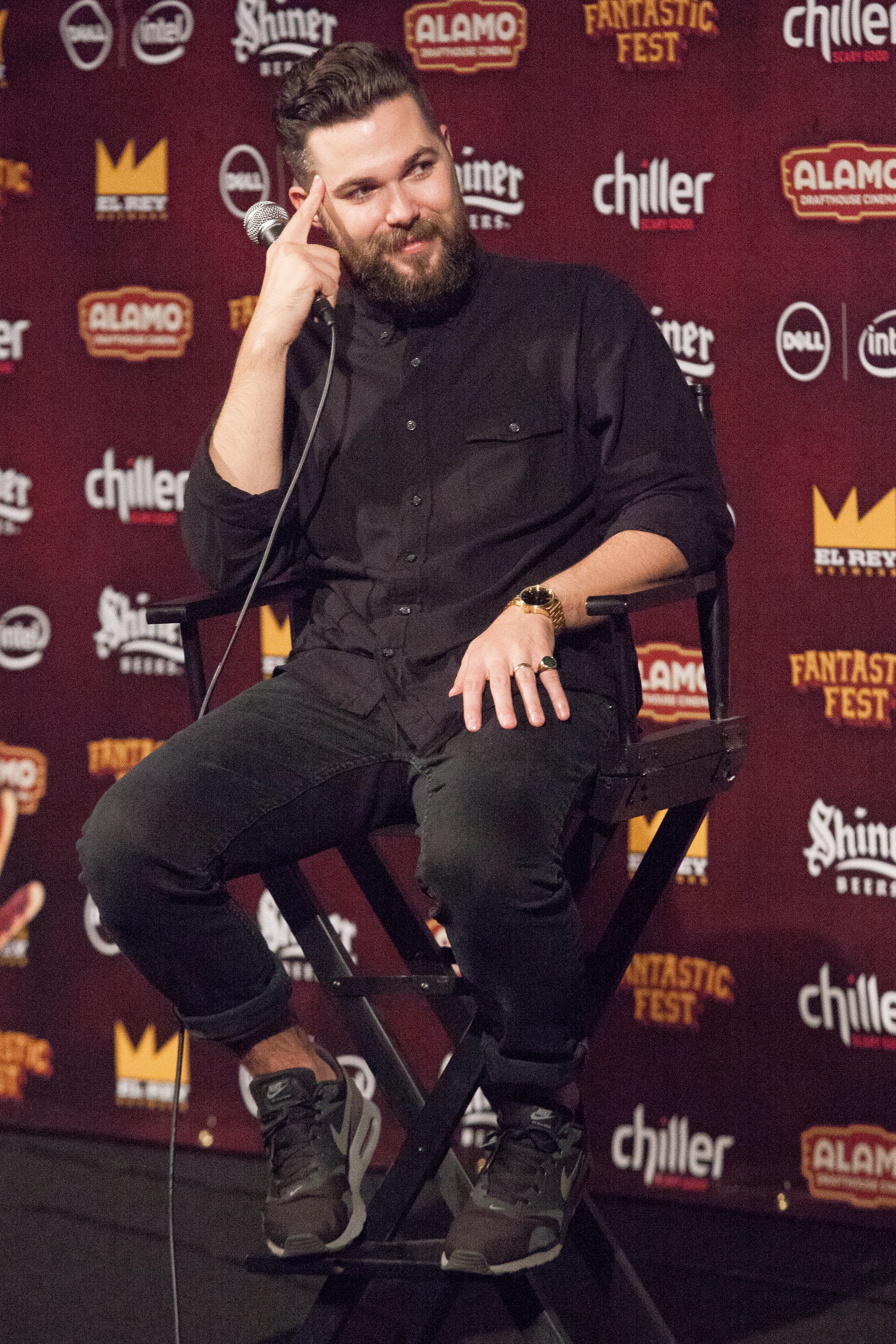 Q&A- The Witch,Fantastic Fest 2015-1667.jpg